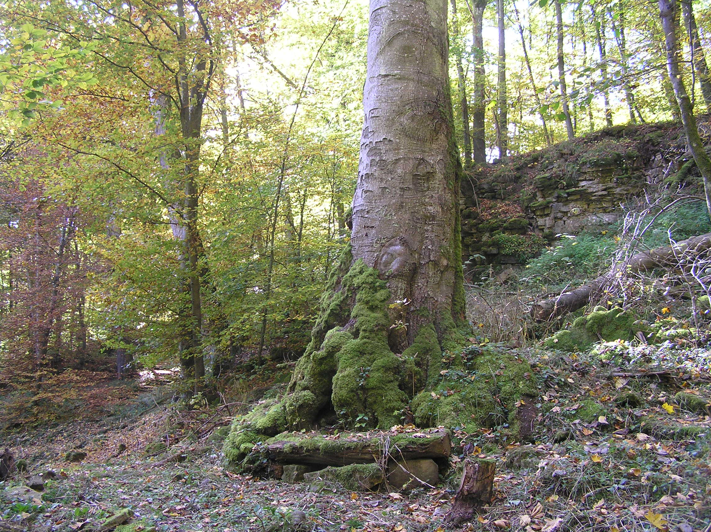 Olgahain